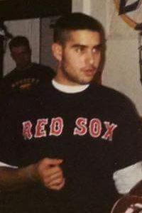 Jon Anik's first play-by-play .